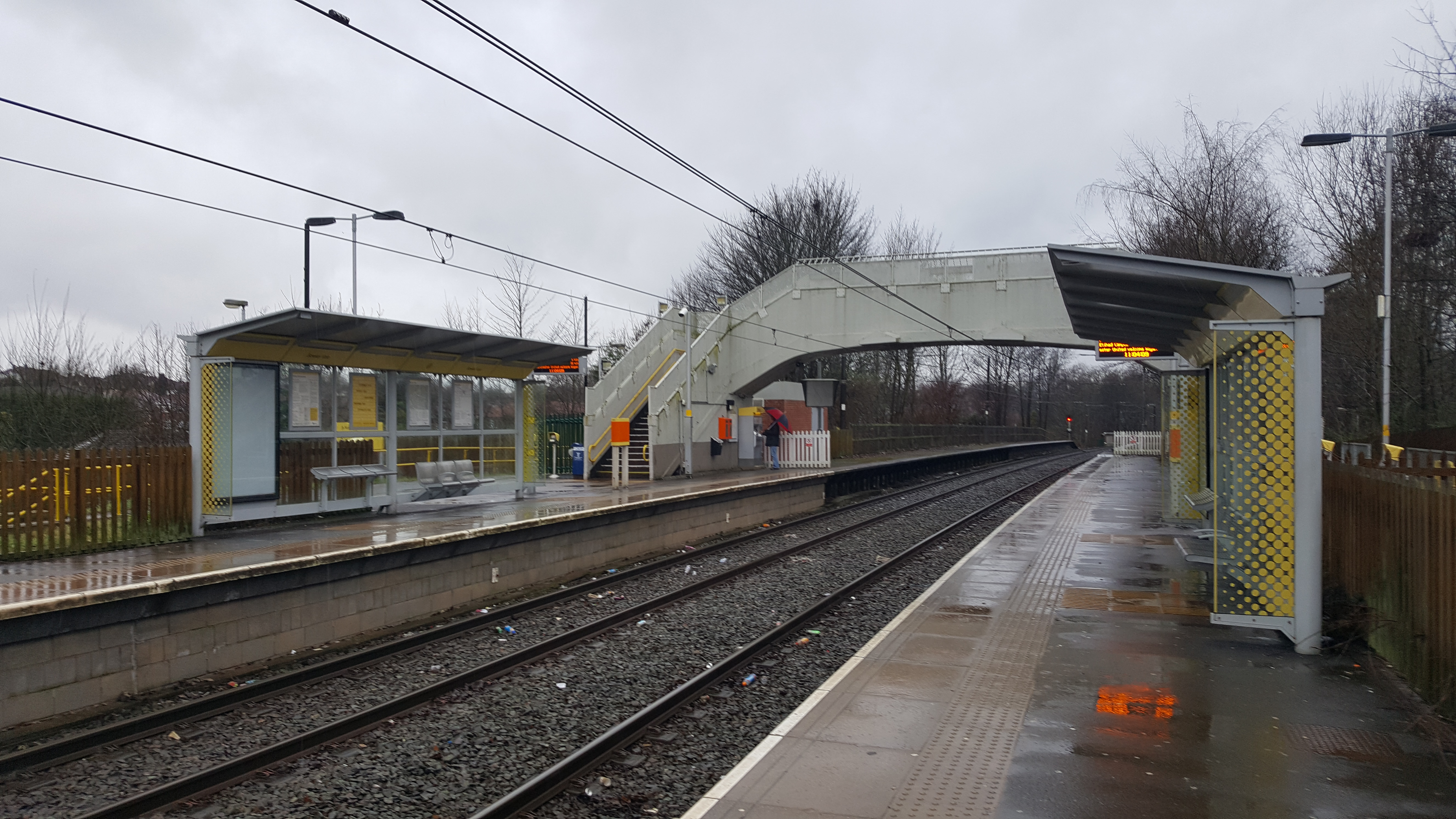 Bowker Vale tram stop looking North.